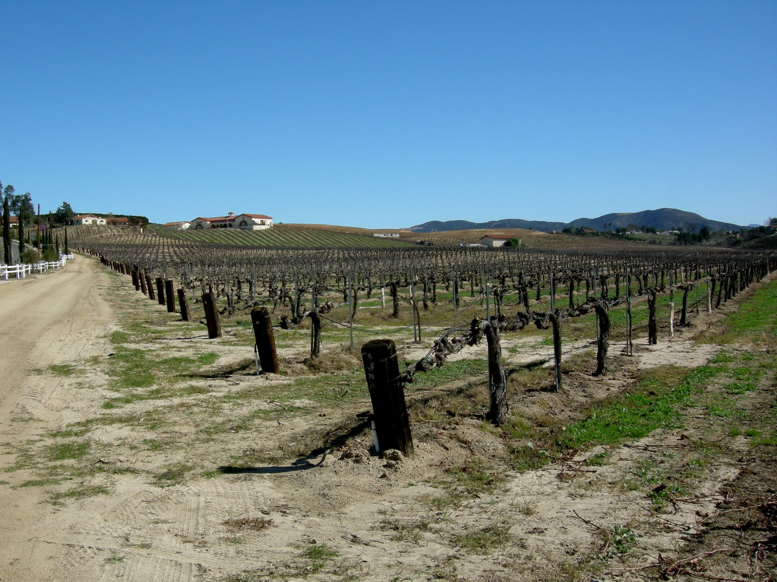 Temecula Valley Southern California Wine Country in Winter